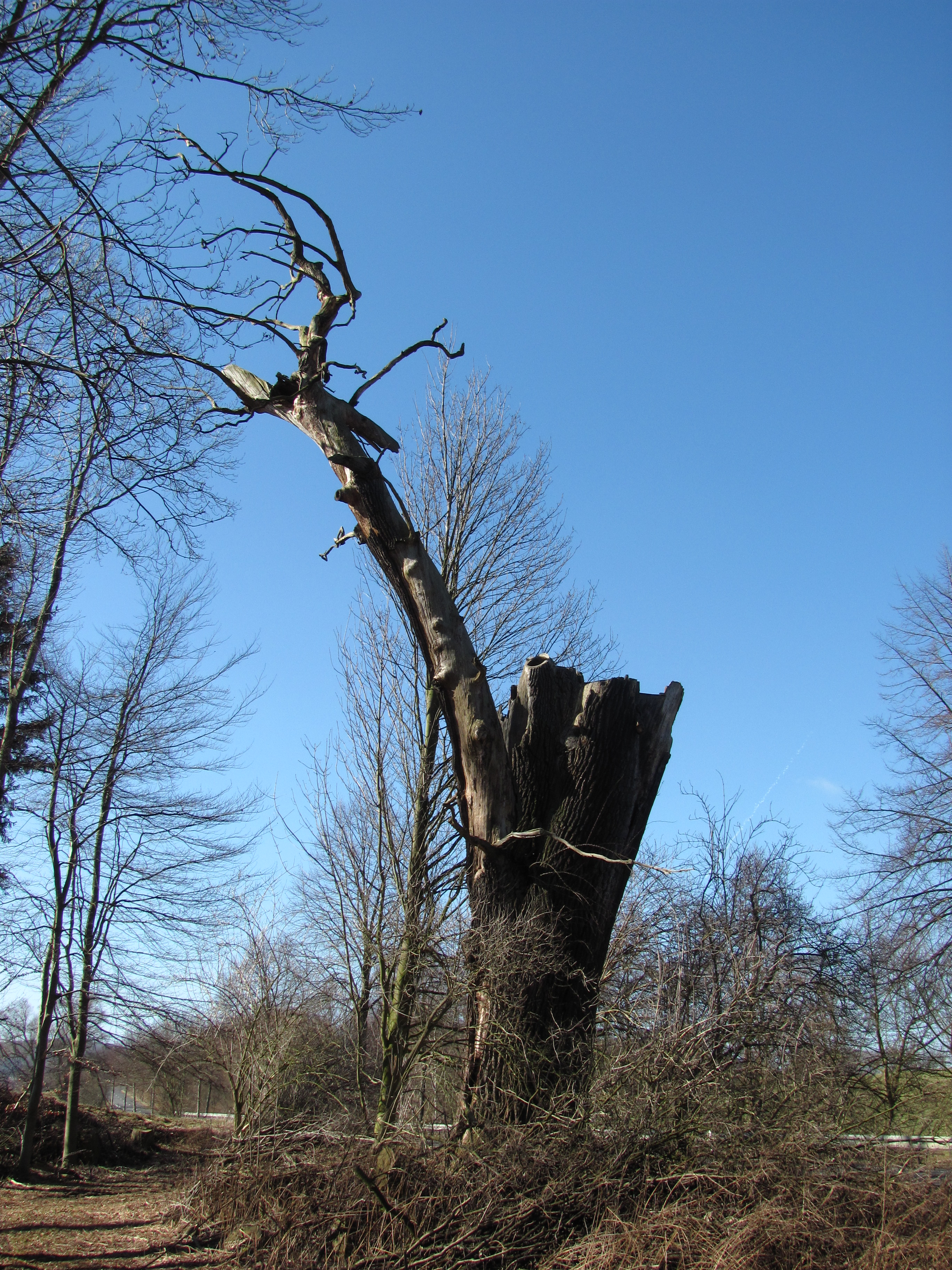 Emperor's Oak ("Kaisereiche"), Holle-Sottrum, Lower Saxony, Germany.